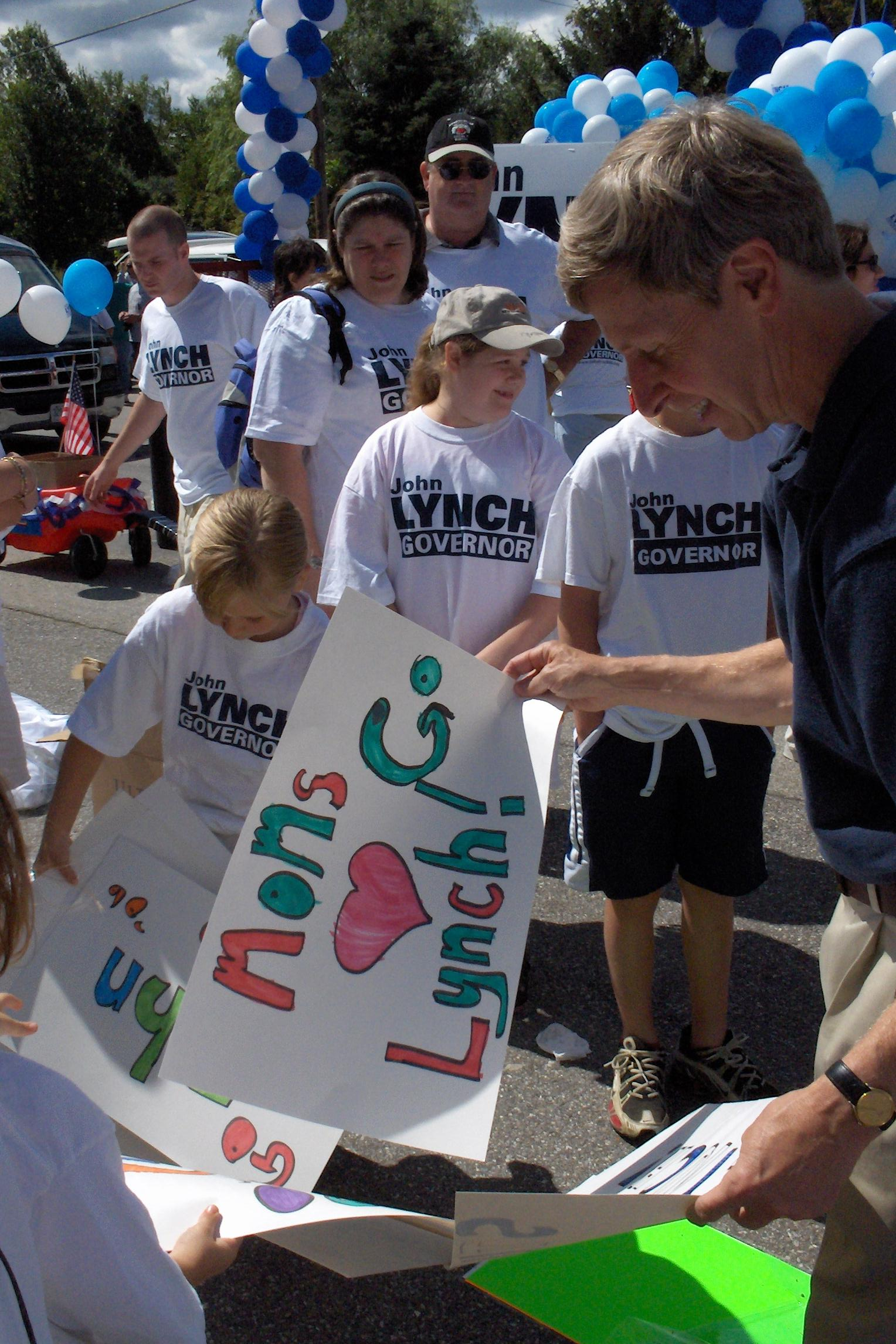 See where this picture was taken. [?]